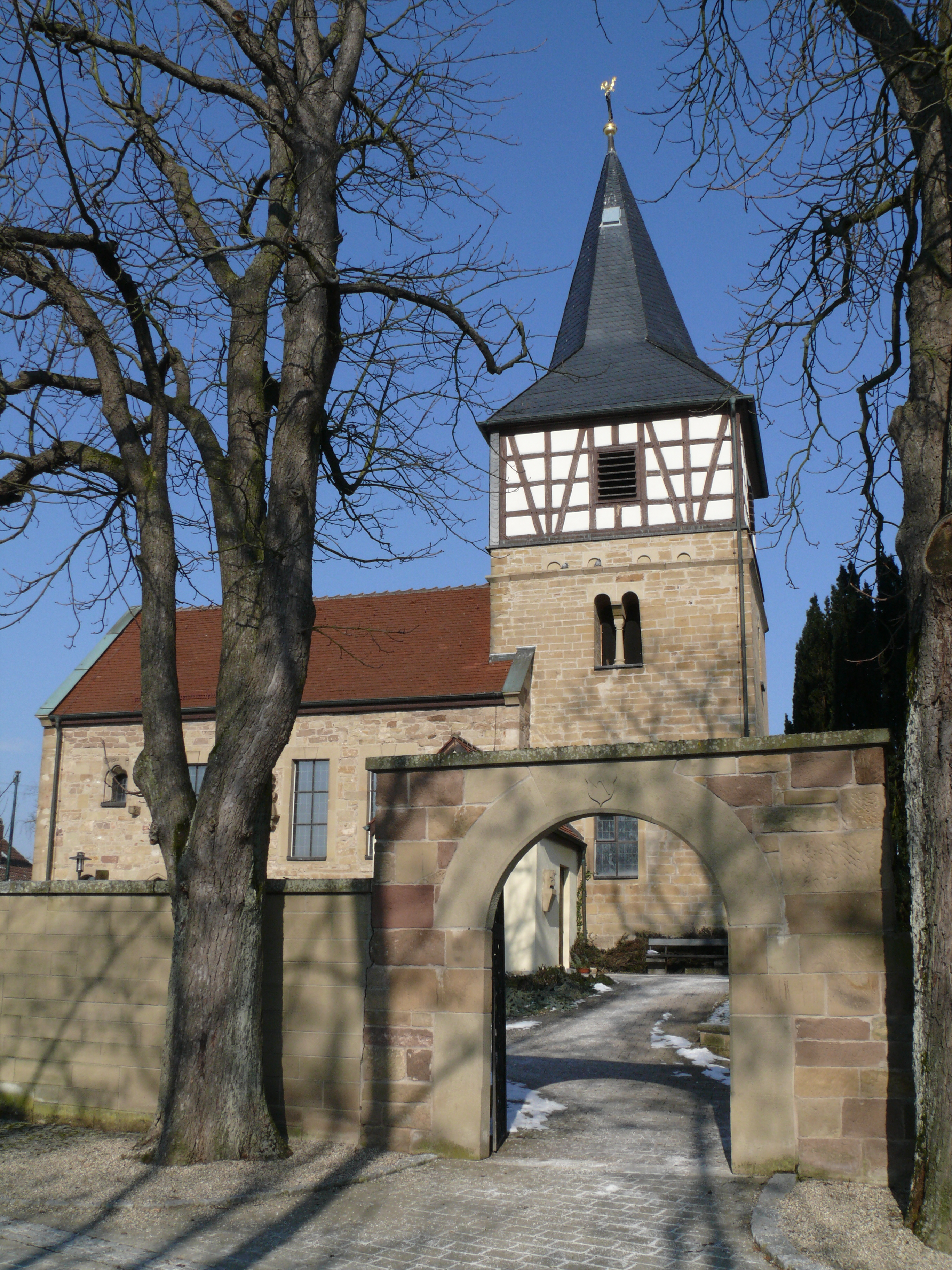 View of the Martinskirche (Saint Martin church) in Frauenzimmern (a district of Güglingen, Germany) from the cemetery’s portal, i.e. from SSE. Winter.